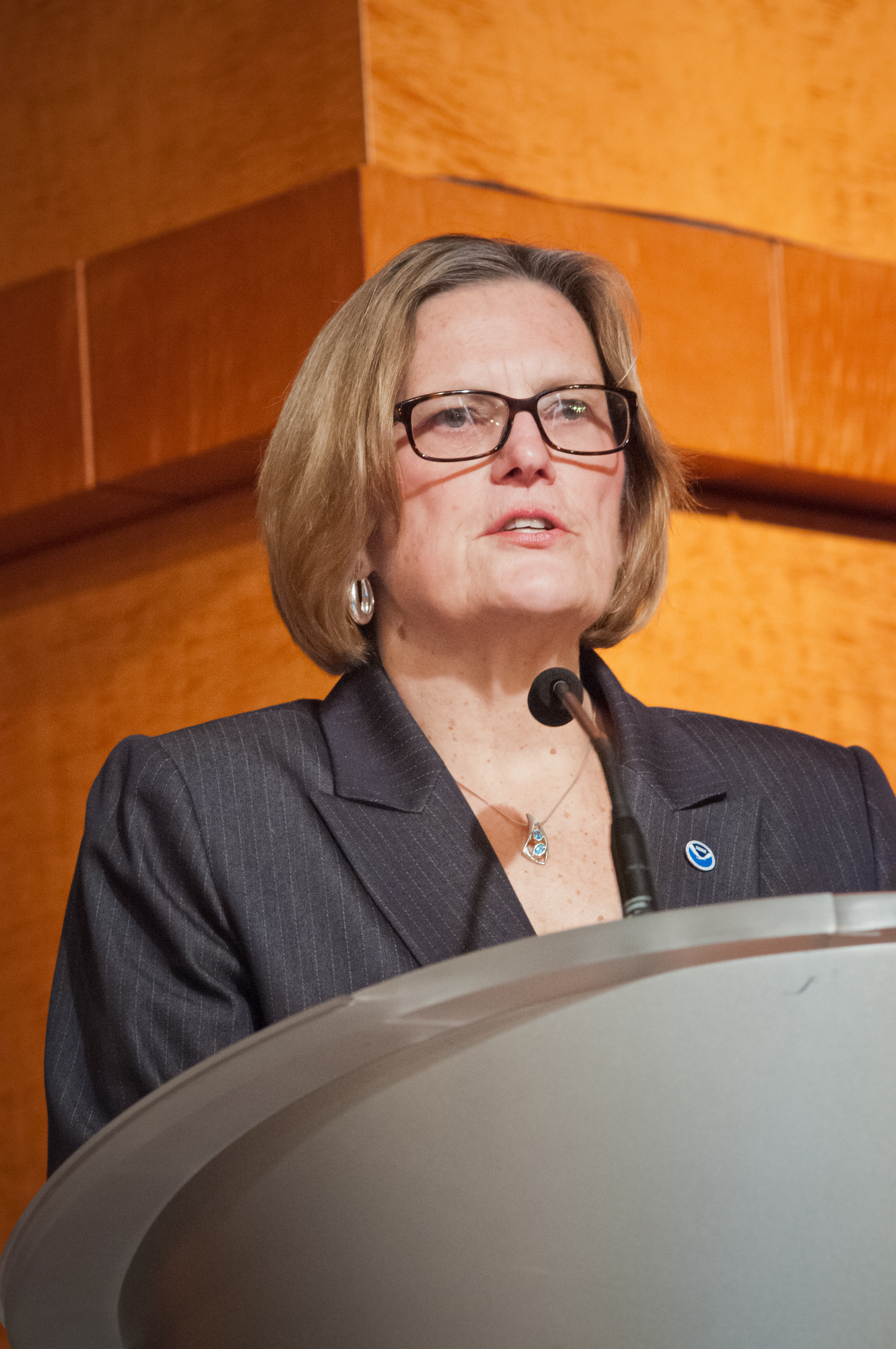 Acting Under Secretary Commerce for Oceans and Atmosphere and Acting National Oceanic and Atmospheric Administration (NOAA) Administrator Dr. Kathryn Sullivan makes opening remarks on the second day of the two day G-8 International Conference on Open Data for Agriculture in Washington, D.C. on Monday, Apr. 29, 2013. Agriculture Secretary Tom Vilsack announced the launch of a new "virtual community" as part of a suite of actions, including the release of new data that the U.S. is taking to give farmers and ranchers, scientists, policy makers and other members of the public easy access to publicly funded data to help increase food security and nutrition at the conference. USDA photo by Bob Nichols.